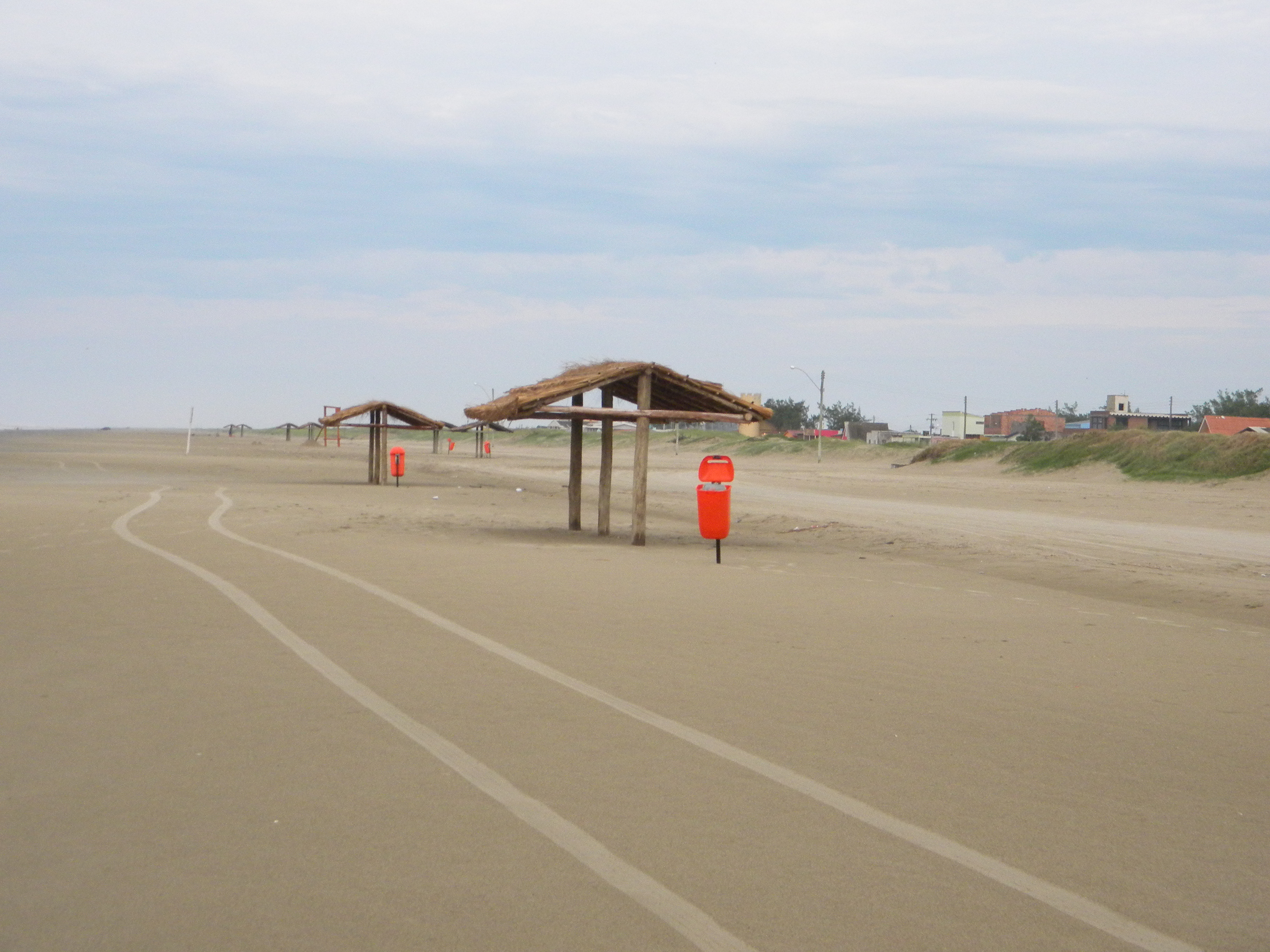 A photo of Mar Grosso Beach.